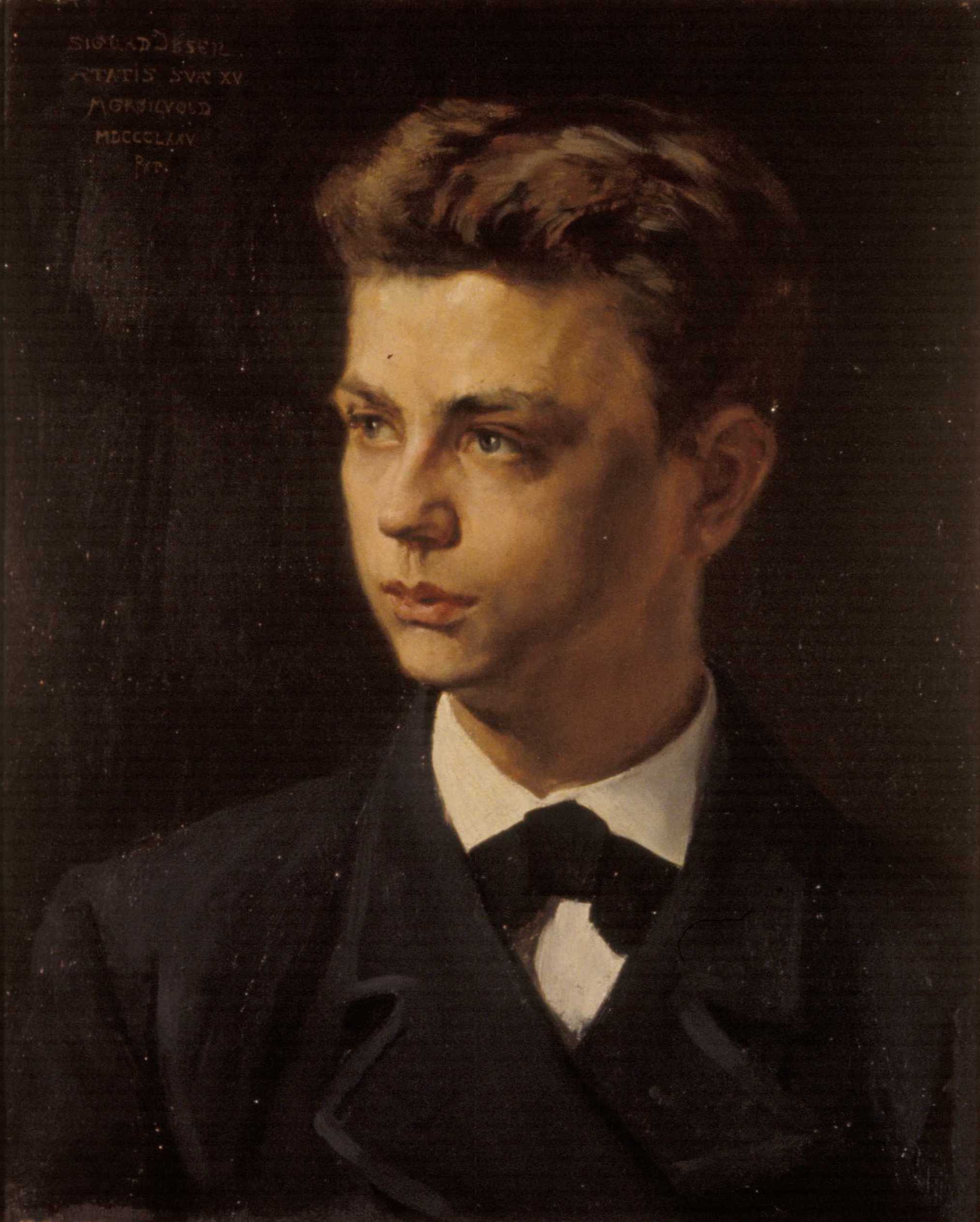 Sigurd Ibsen, 1875